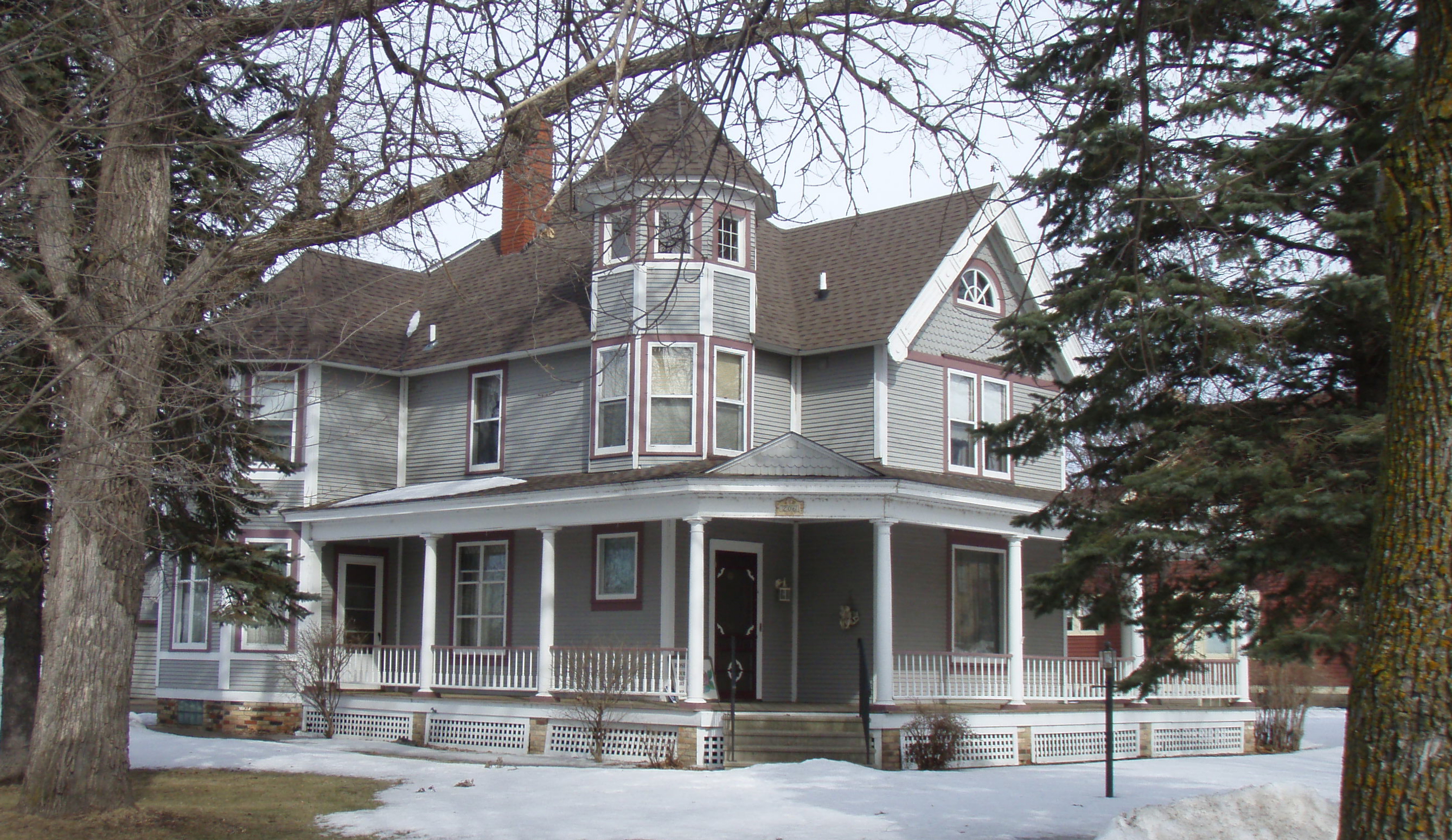 C.E. Williams House in Mora, Minnesota, listed on the National Register of Historic Places.